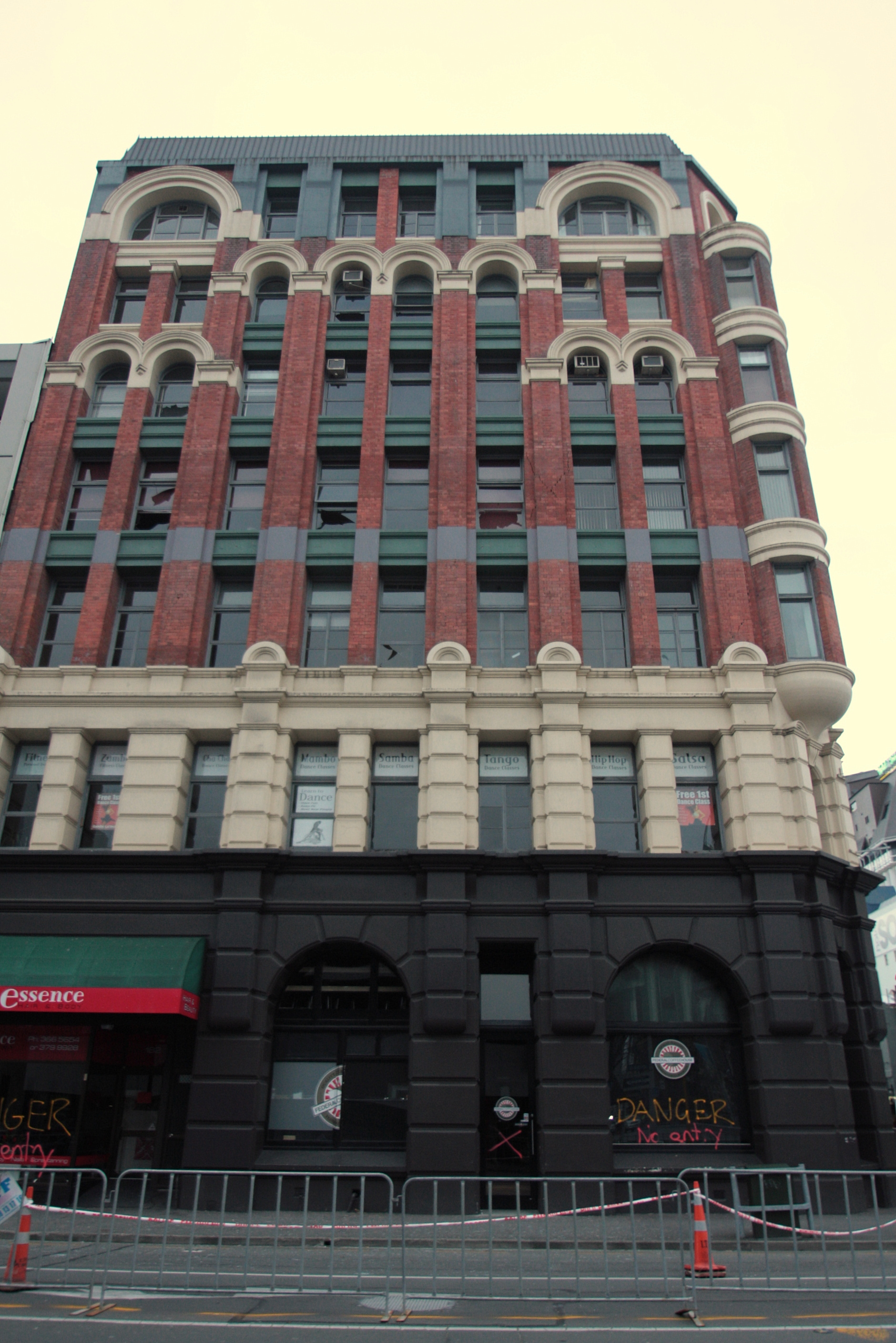 Manchester Courts, Christchurch. Look close and you will see as well as the broken windows, big cracks in the brickwork. I think this one might be condemned! Such a shame!